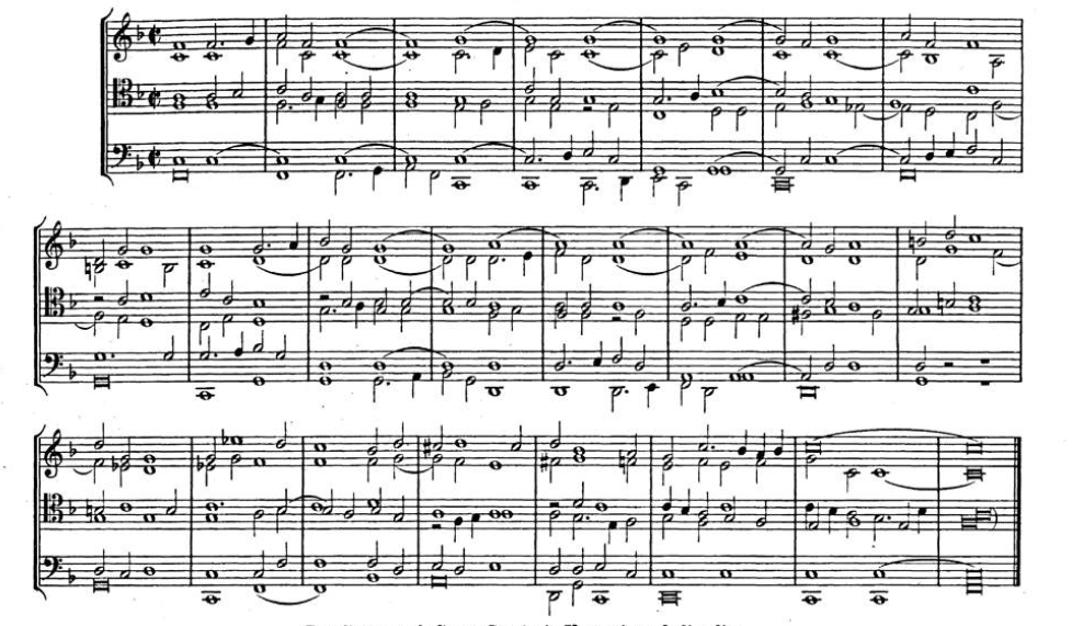 Benedicamus for organ, the last composition in Part III of Tabulatura Nova